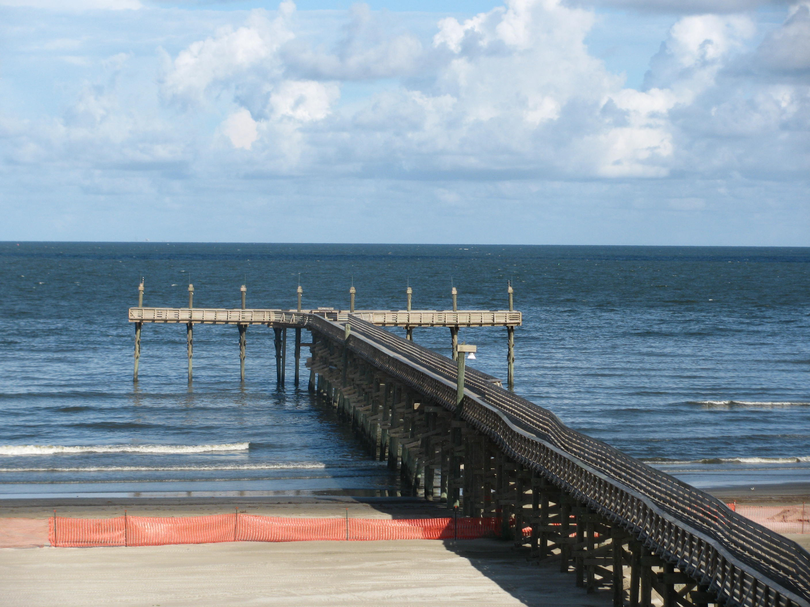 A view of the Gulf of Mexico from Grand Isle state park in Louisiana